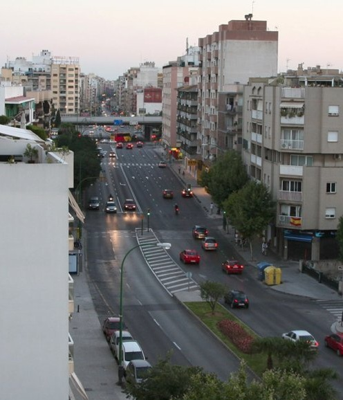 Aragon Street in Palma de Mallorca (Balearic Islands, Spain)